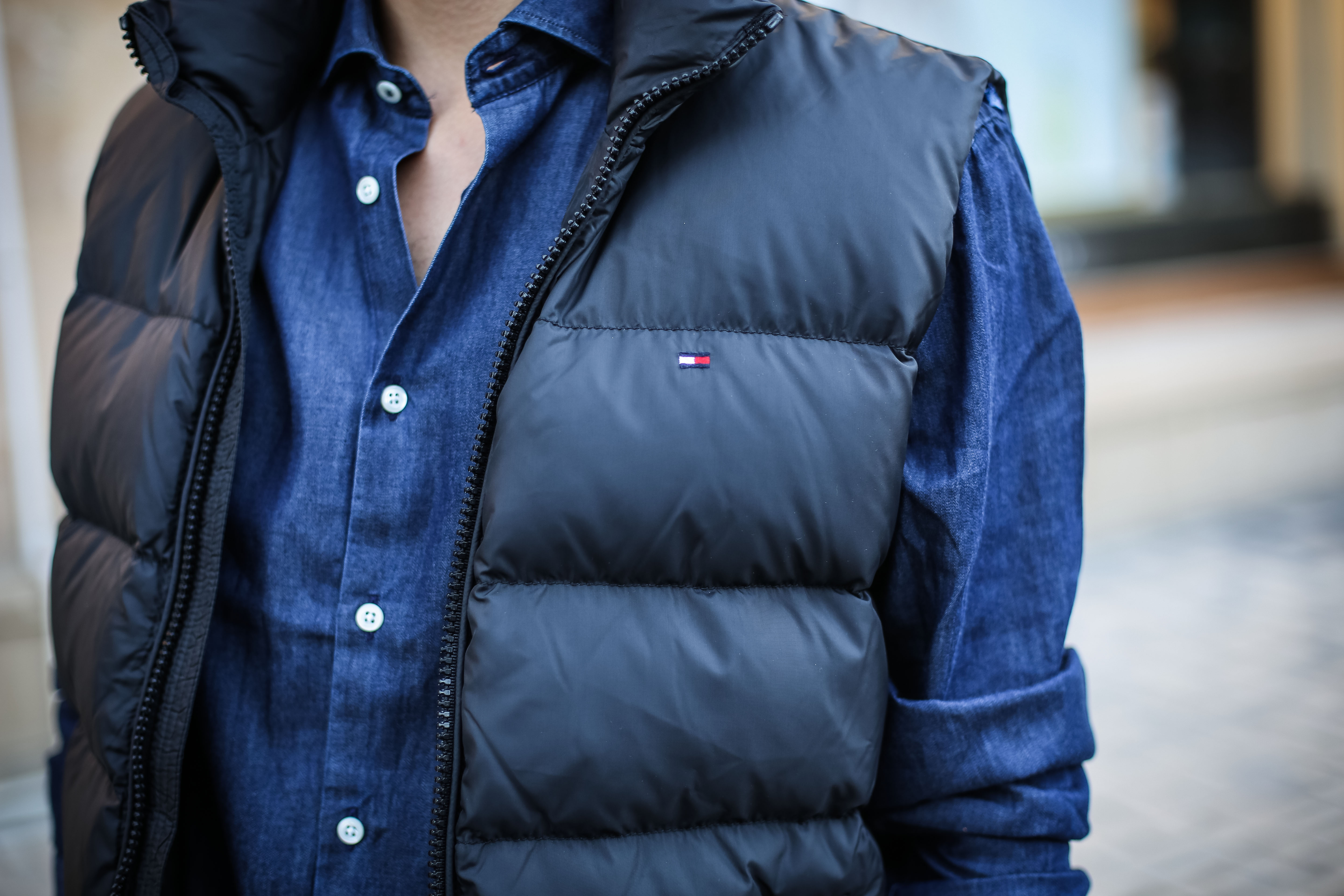 Tommy Hilfiger Azerbaijan